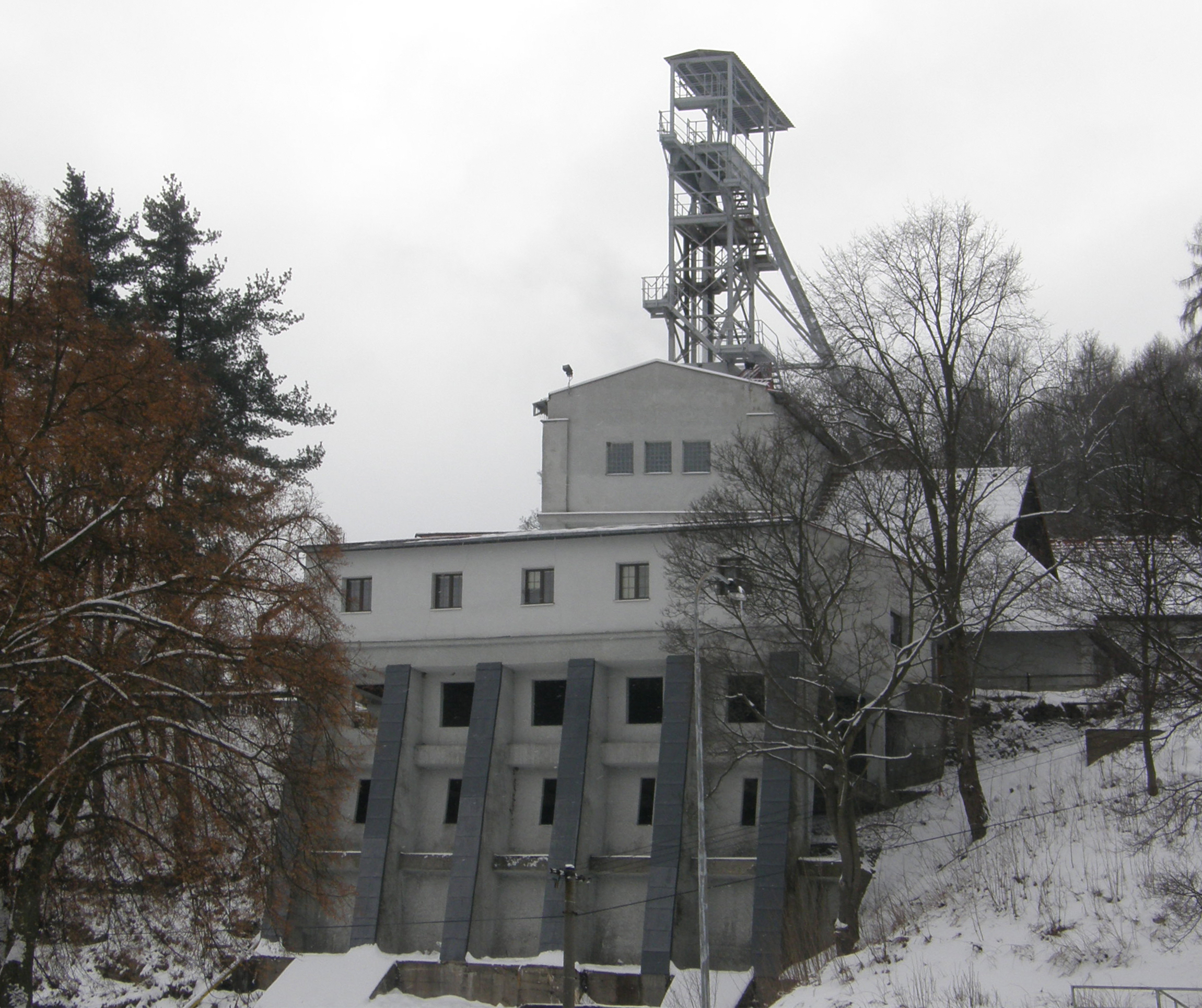 Svornost Mine in Jáchymov (Karlovy Vary distr.)